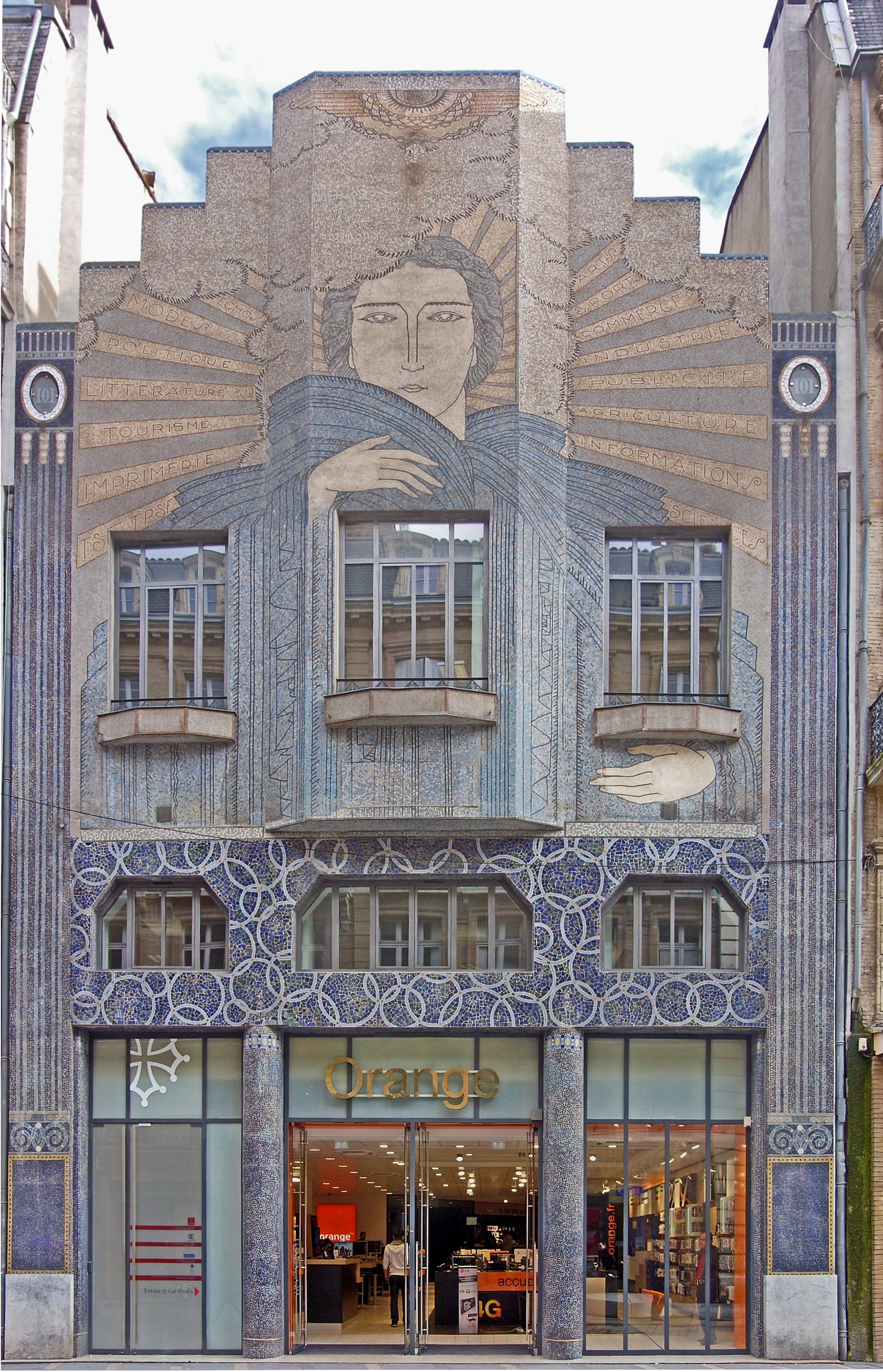 Building called La Depeche du Midi, Toulouse, France. Art-deco facade by Léon Jaussely, mosaic created by Gentil & Bourdet in 1932. Once the seat of the newspaper La Depeche du Midi.